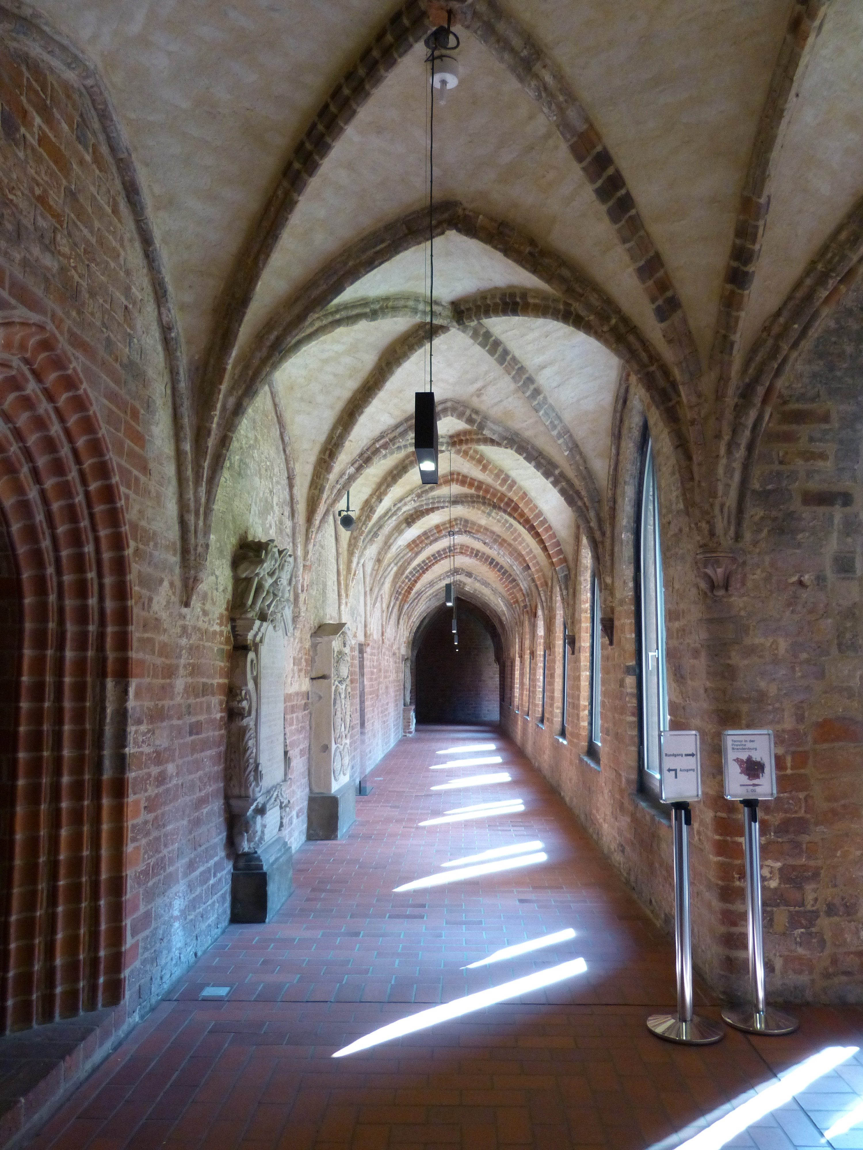 Brandenburg an der Havel ( Germany ). Saint Paul monastery: Cloisters